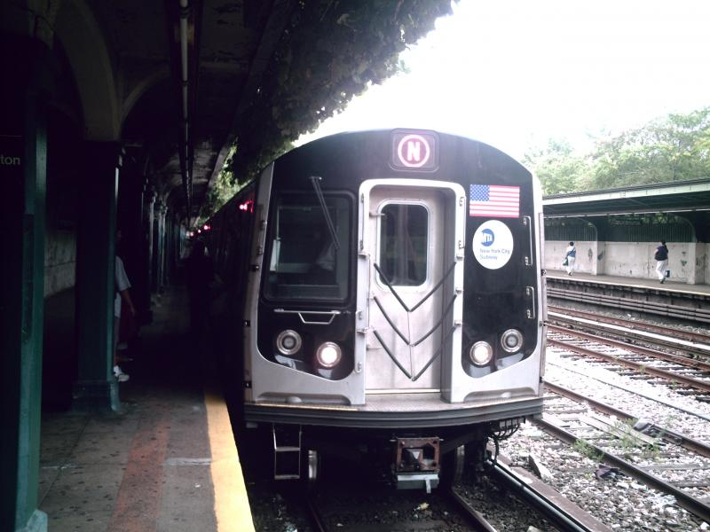 Coney Island-bound N train of R160Bs at Fort Hamilton Parkway